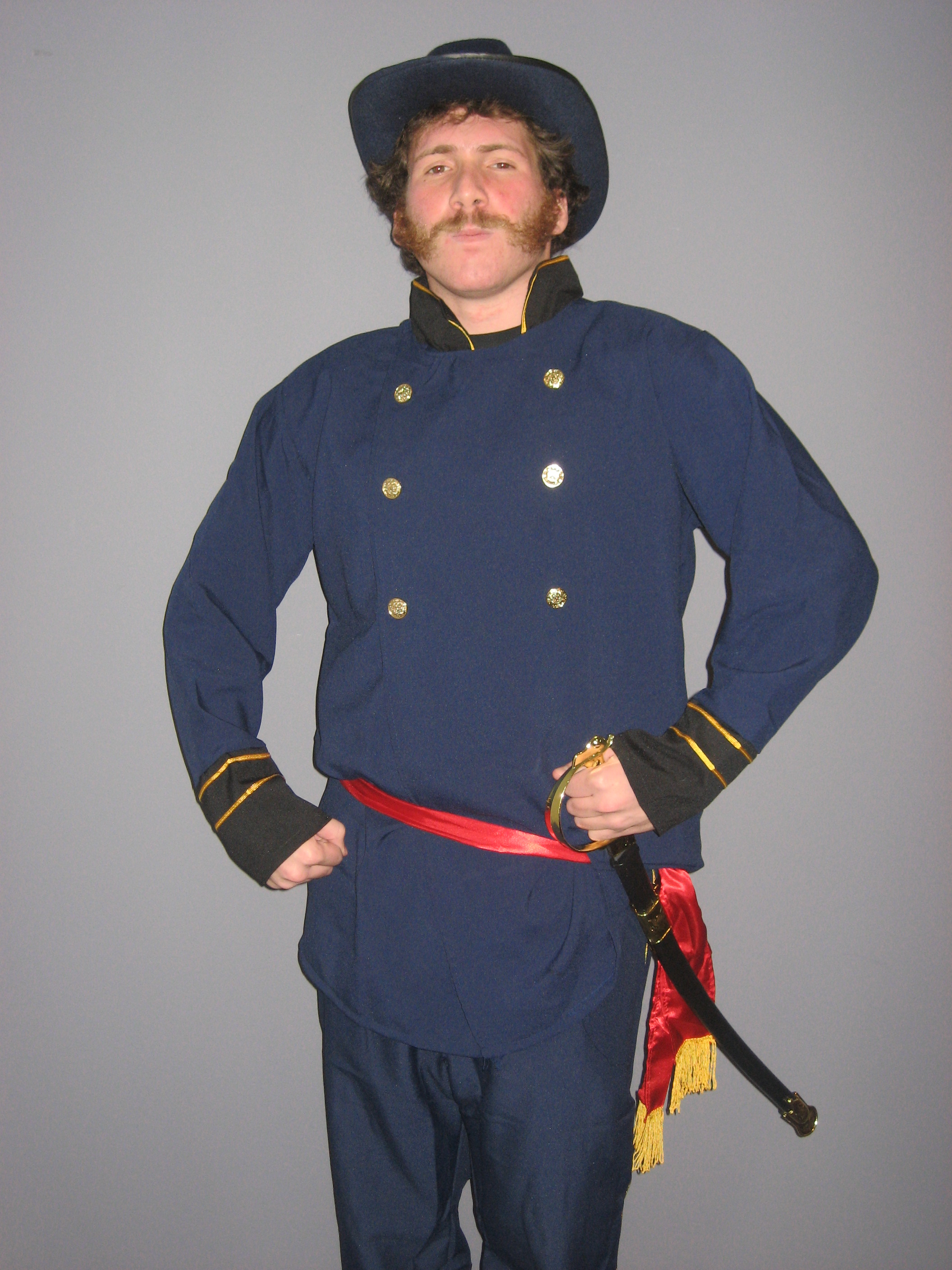 Presumably a Civil War reenactor dressed as Ambrose Burnside.